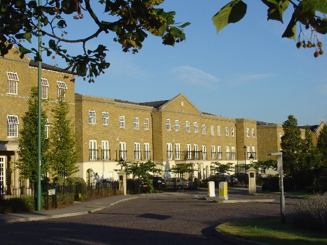 Chadwick Place, Long Ditton. This is a new housing development in Long Ditton, just south west of Surbiton just a few hundred yards from the Thames and near the main railway line through Surbiton from Waterloo to the south coast